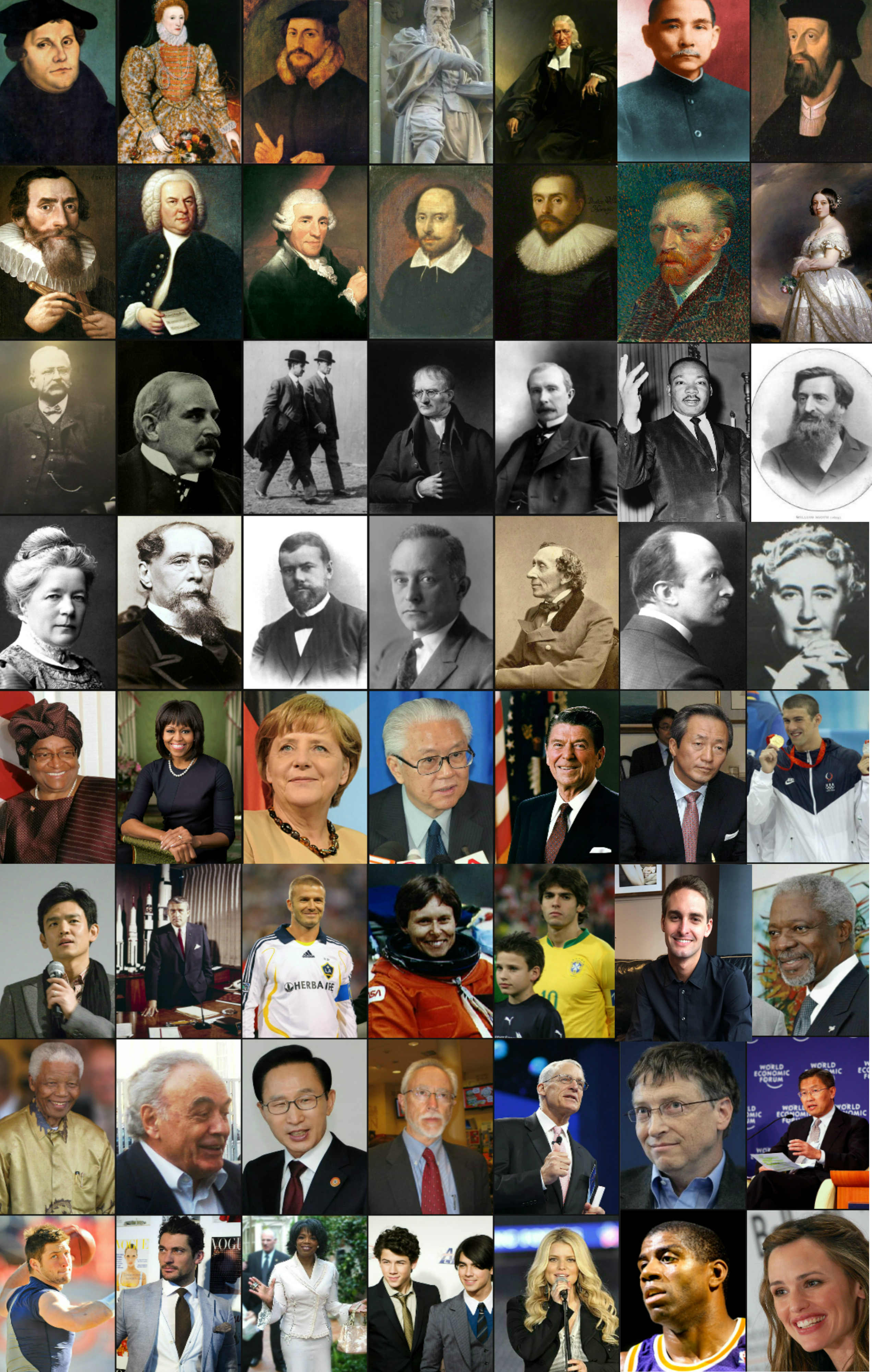 Collage of photos of 56 Protestants known figures - Anyone can use these original photos themselves among others and make another collage of (Christians) themselves or remix as they wish, as long as they give the correct source and usage/Copyright given. Dont delete the photos, if one becomes unusable due to copyright, please dont delete, just replace the photo or i will.